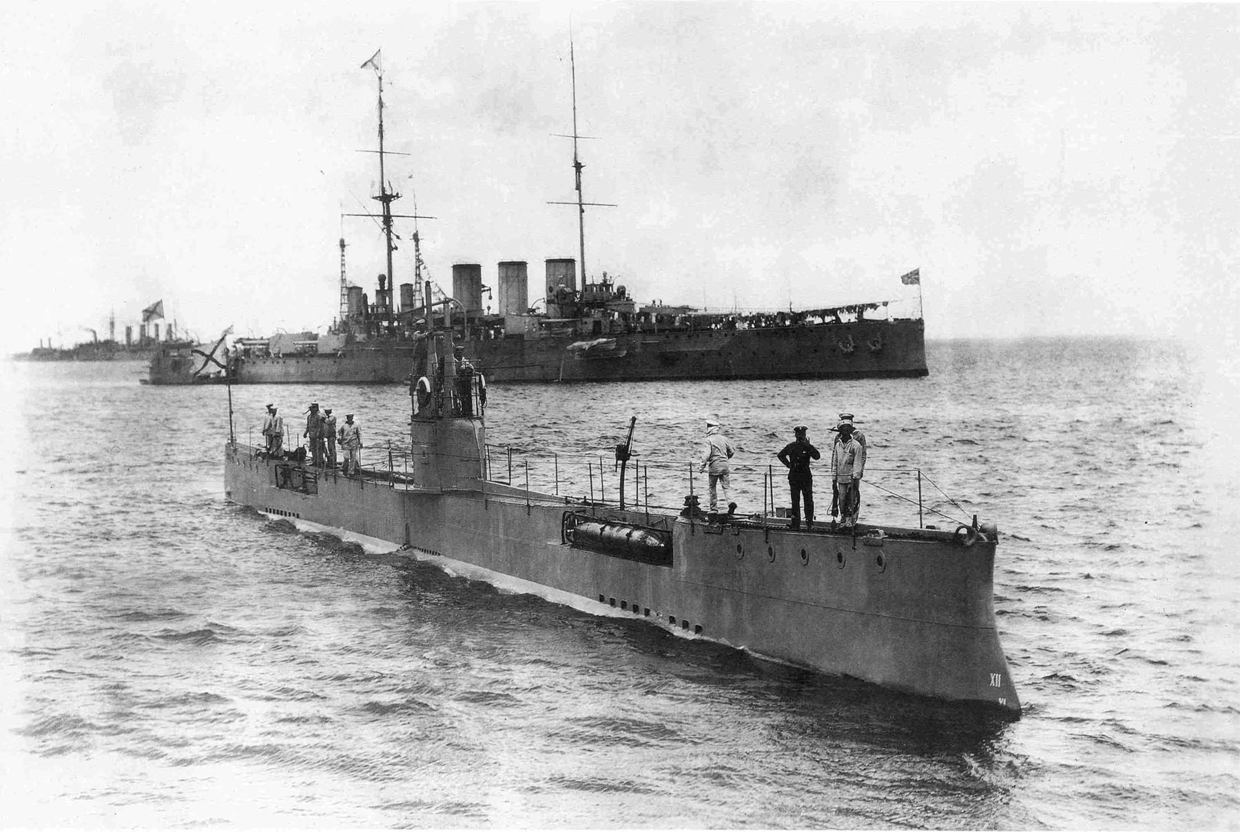 Imperial Russian submarine Akula and armoured cruiser Ryurik, 1913.